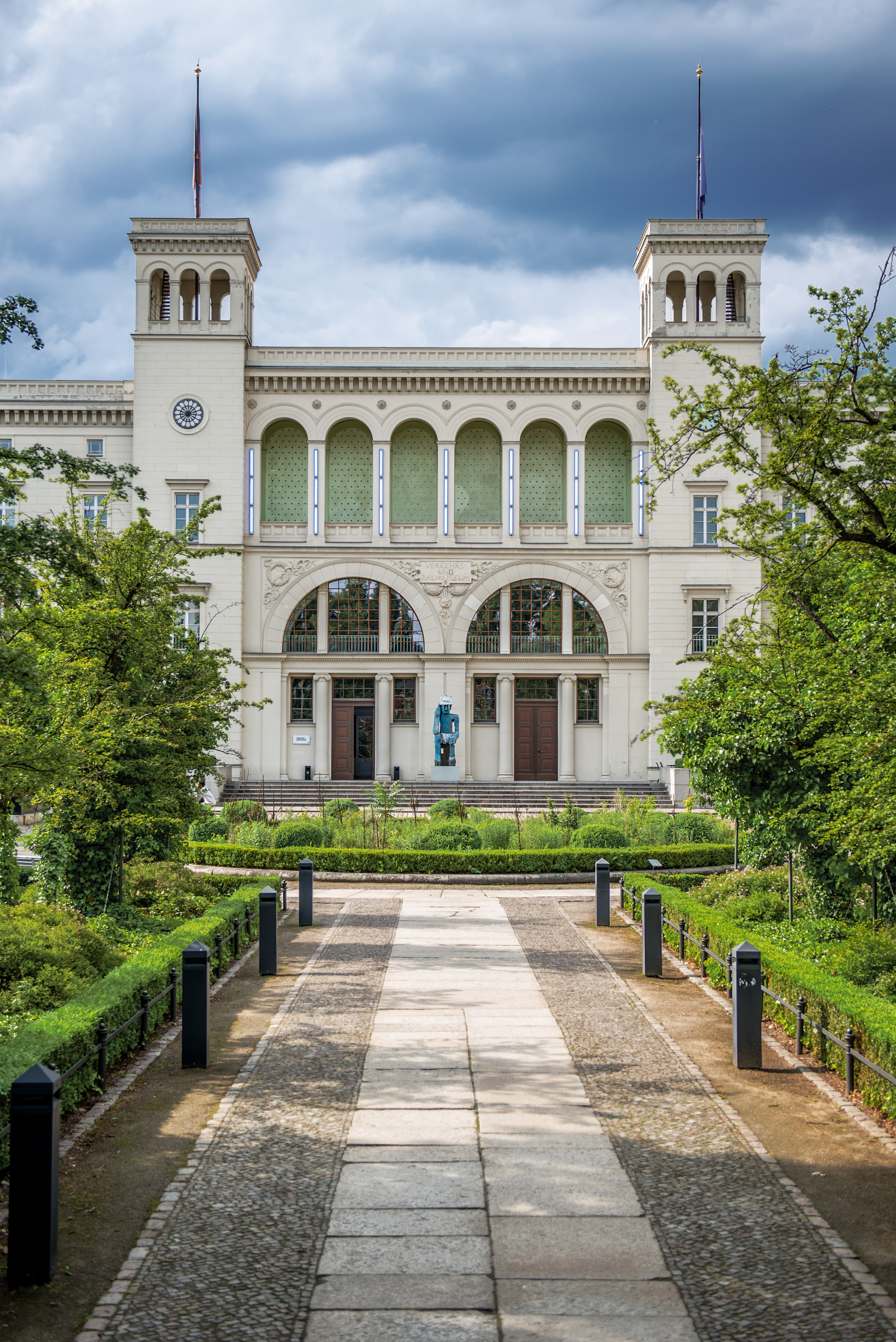 Hamburger Bahnhof – Museum for contemporary art